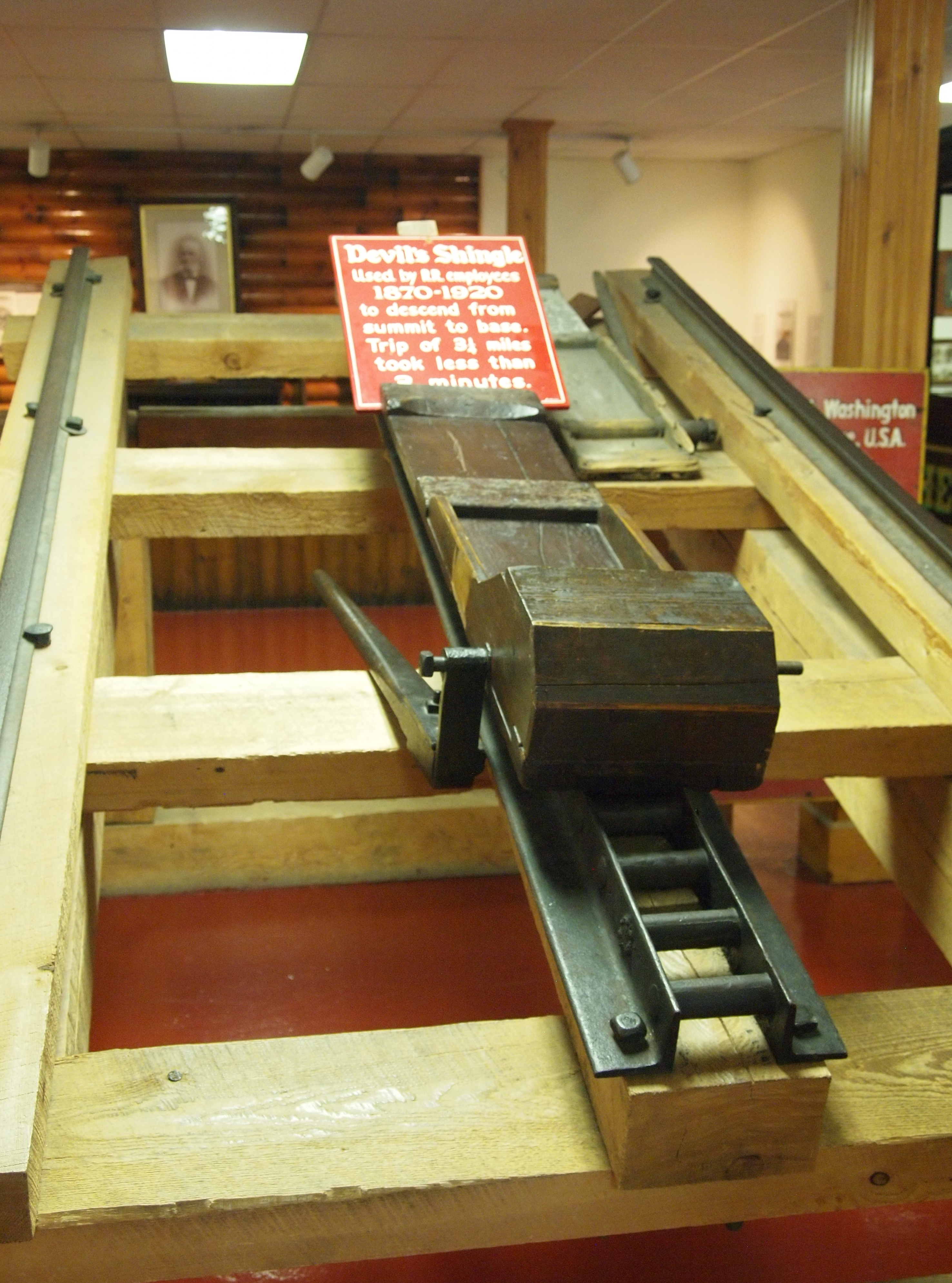 "Devil's shingle" slideboard used by employee between 1870 and 1920 to decent down to the base.